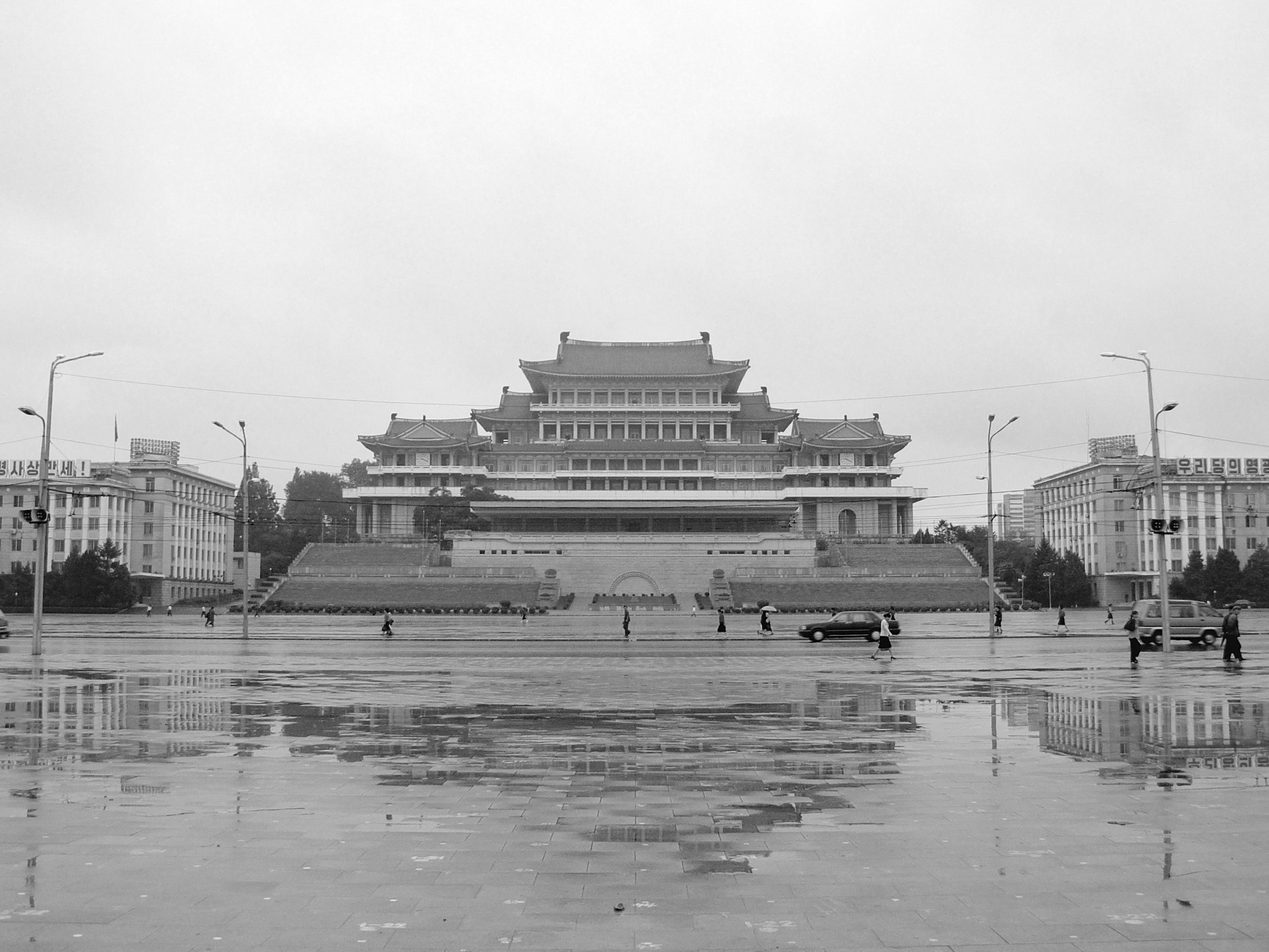 No surprise, the main square in Pyongyang, the venue for military parades, is named Kim Il Sung Square. The structure in the middle is the Grand People's Study House, easily the most pleasant looking building in Pyongyang, build in a classical Korean style (Pyongyang is otherwise a sprawling Brutalist nightmare). The complex functions as a library and study hall.